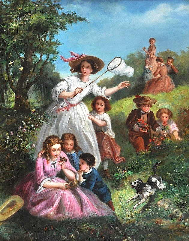 A Garden Scene with Children, Netting Butterflies, Playing with a young Bird, and Collecting Flowers, a young dog in the foreground